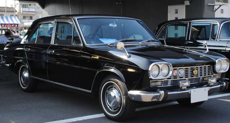 Nissan Cedric 130 Special Six.